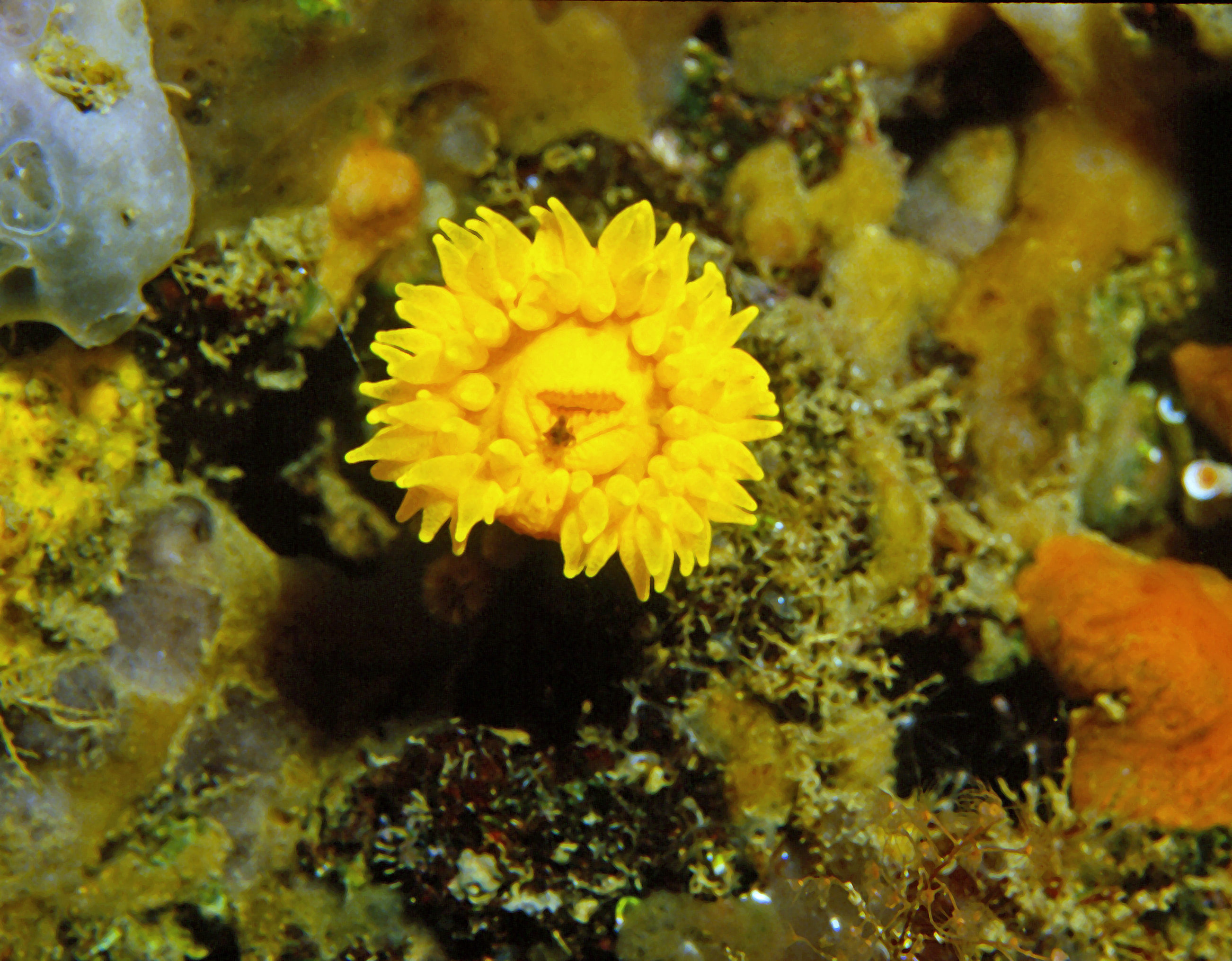 Leptosammia pruvoti (de Lacaze-Duthiers, 1897)- Banyuls-sur-Mer, Sec de Rédéris : 08/85